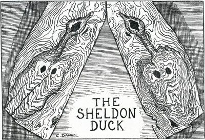 The Sheldon Duck is a duck-like peridolia found in an Ash tree in the village of Sheldon in Derbyshire, England, which was felled at the beginning of the 20th century.